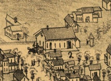 The 1852-built Madison station depicted on an 1881 aerial map